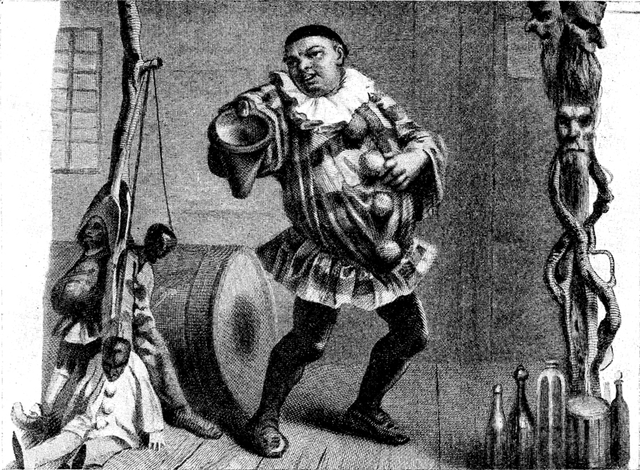 Paillasse, a French theatrical character type.